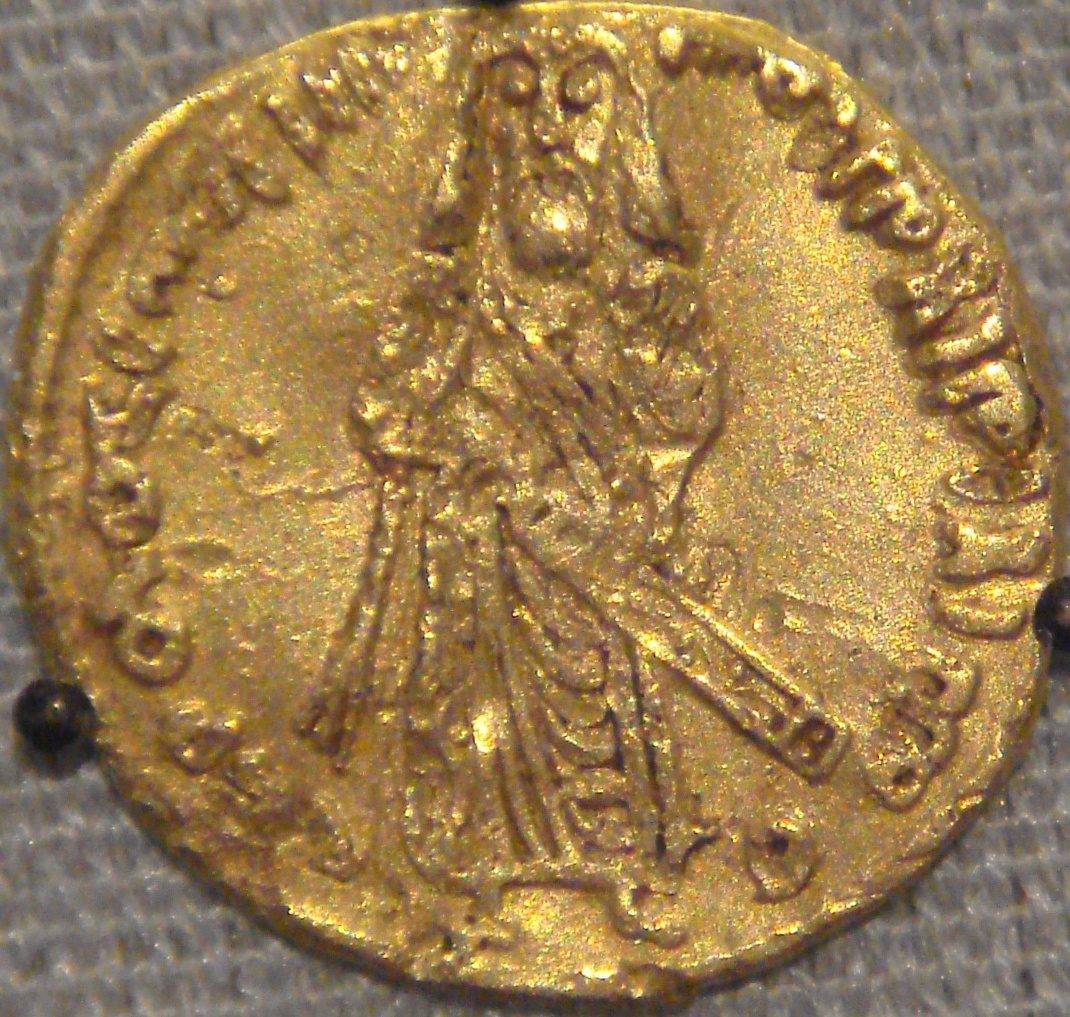 Umayyad Caliph 'Abd al-Malik: 'Caliphal Image solidus' or Standing Caliph solidus struck from 74-77 AH. Based on Byzantine numismatic traditions. Note that, contrary to popular belief, there are official representations of the human figure in the Islamic context.